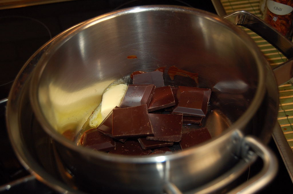 couverture chocolate in a double boiler